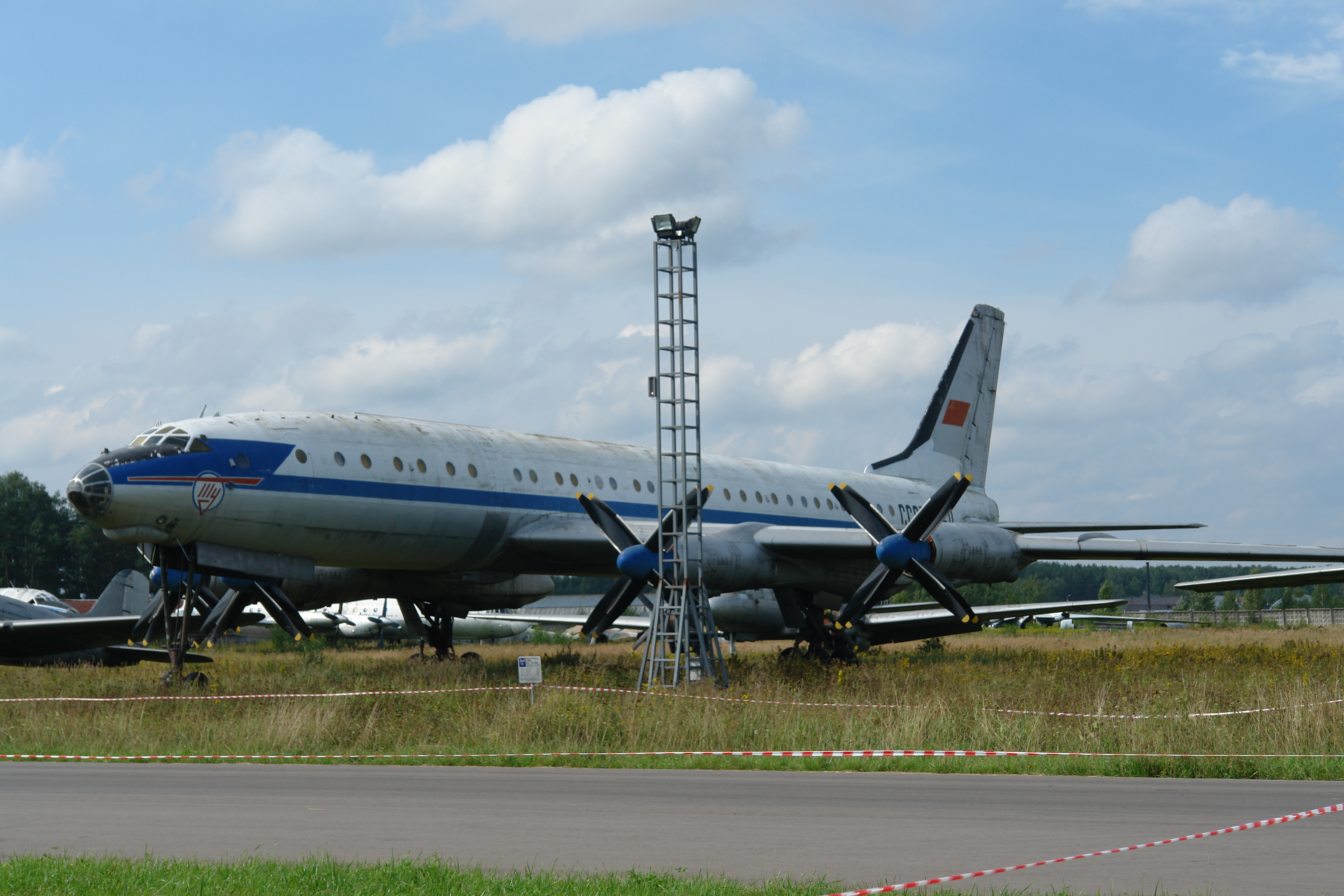 Tupolew Tu-114 (Cleat) at Monino Central Air Force Museum (Moscow)